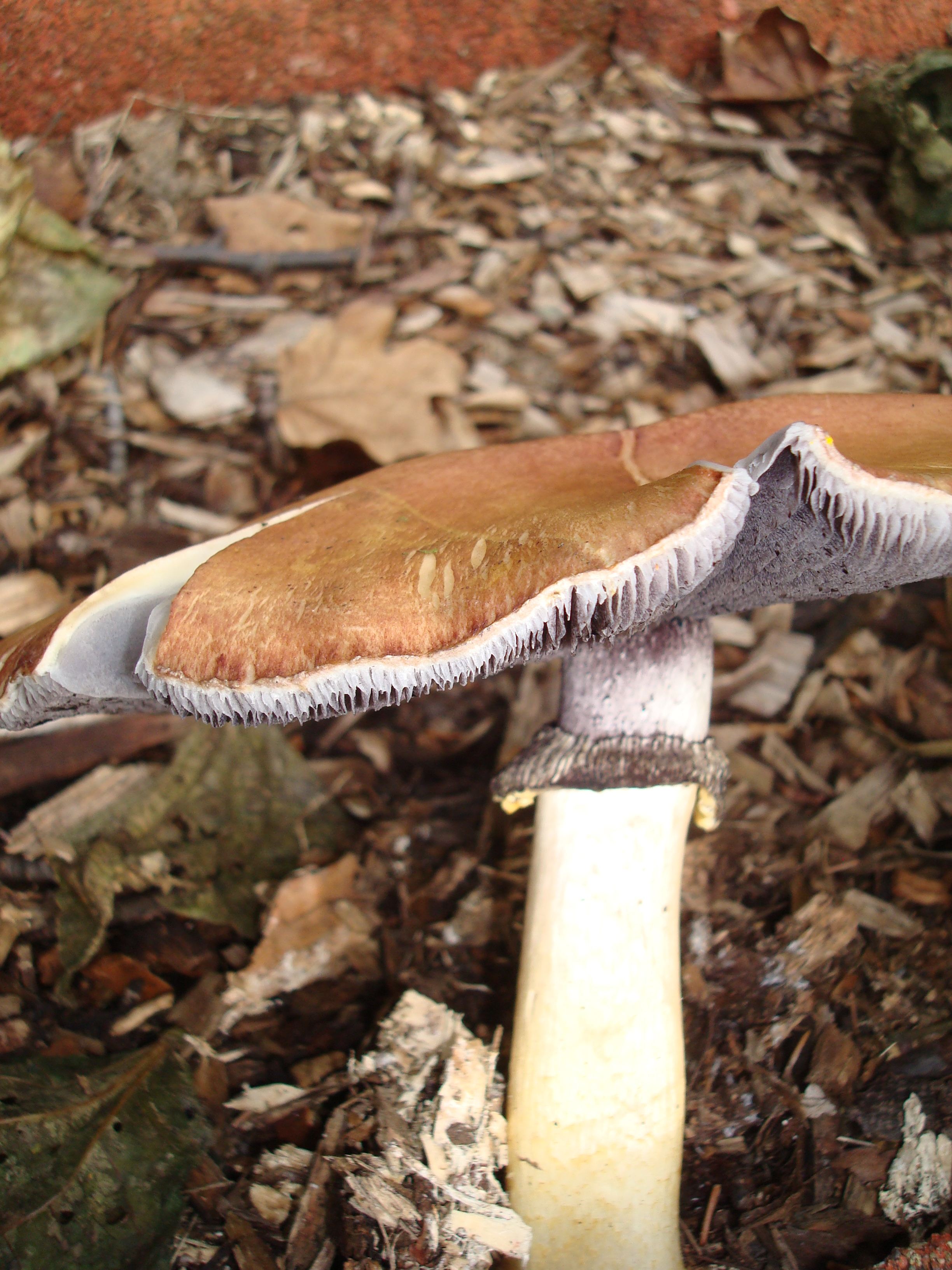 Author: Marie